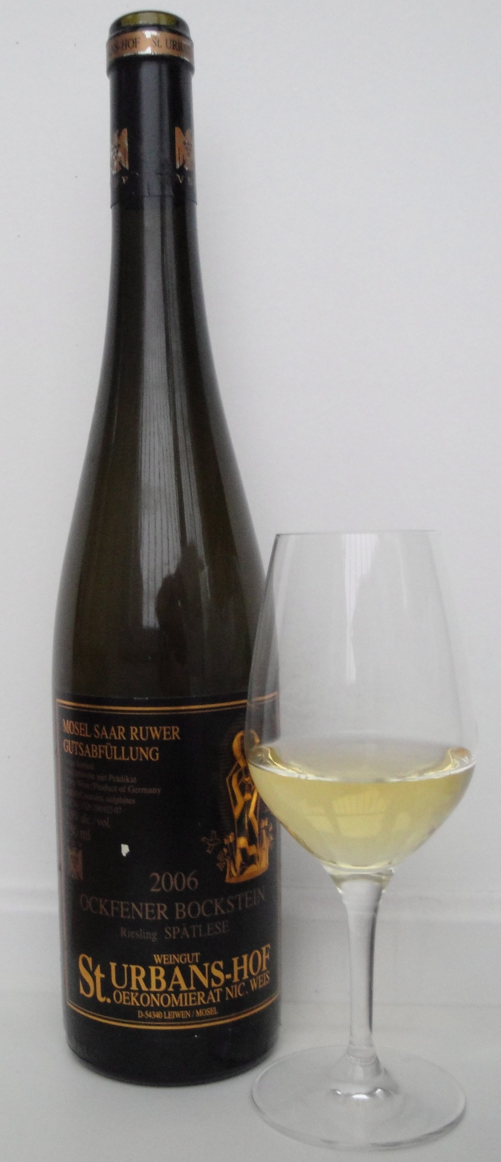 2006 Ockfener Bockstein Riesling Spätlese from St.-Urbanshof. A semi-sweet wine from the Saar subregion of Mosel (in 2006 still called Mosel-Saar-Ruwer).